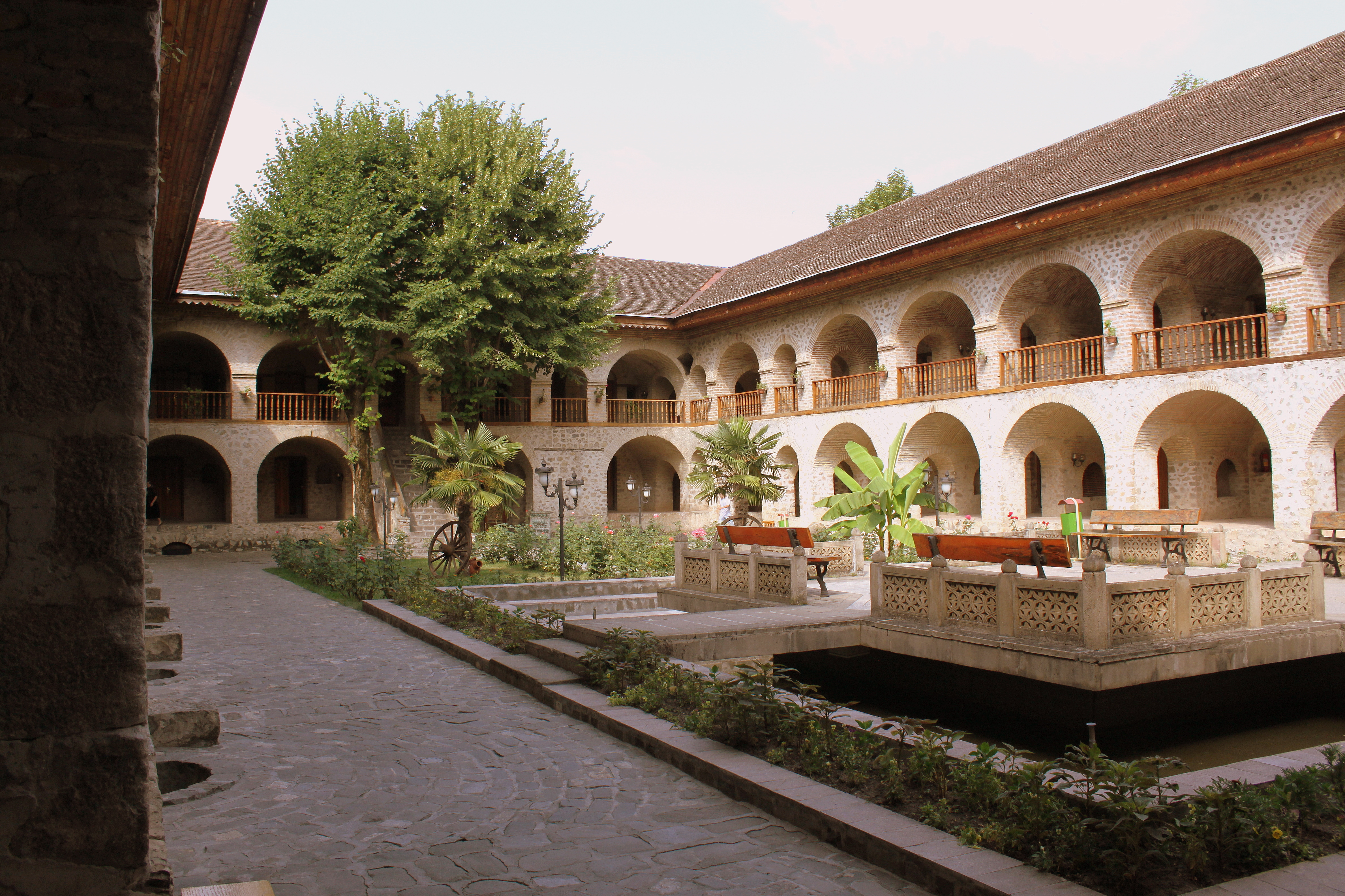 Karavansaray in Shaki.